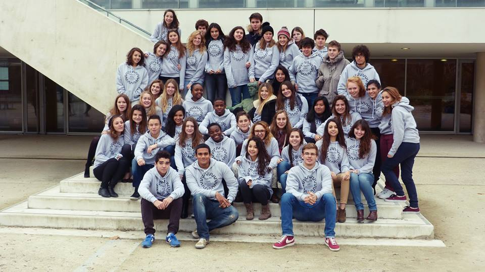 photo de classe de la promotion 2013-2015